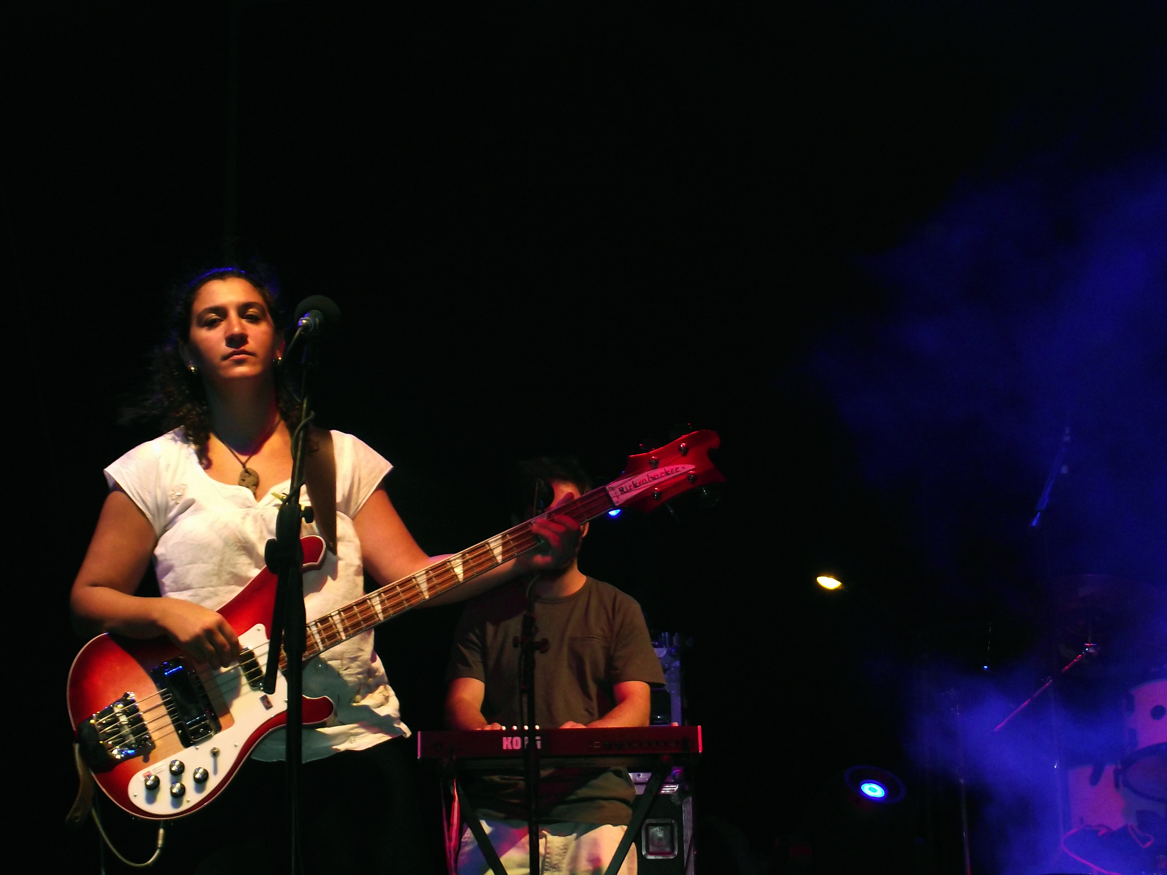 Seferihisar Konser, Zeynep Eylül ÜçerTürkçe: Seferihisar Konser, Zeynep Eylül Üçer